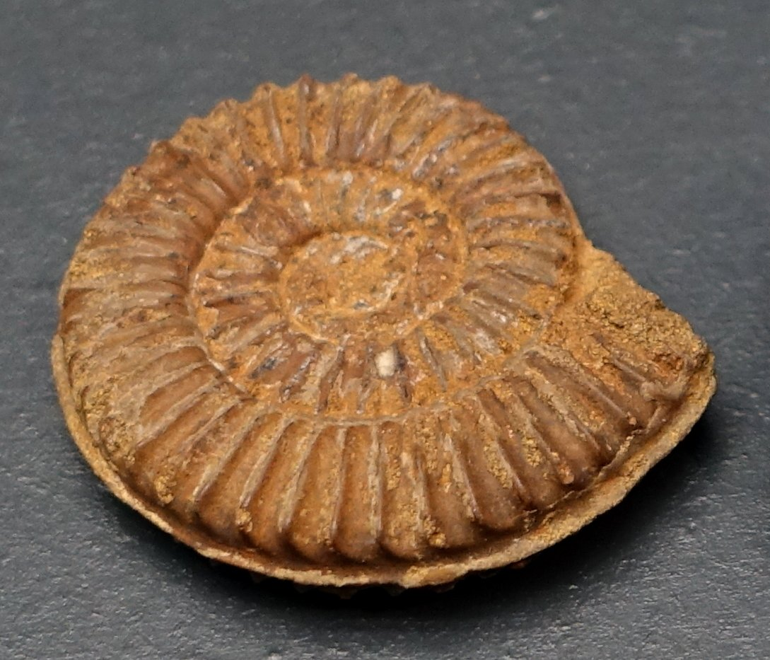 crop of file in file name